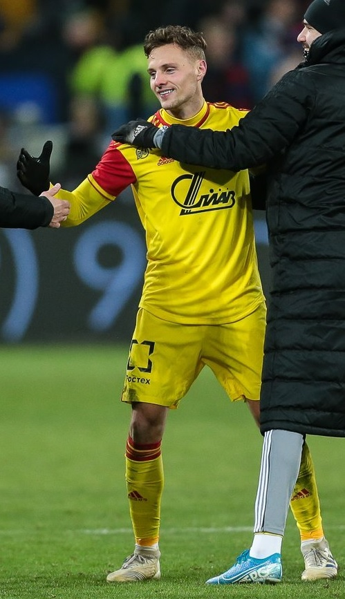 Robert Bauer with FC Arsenal Tula after a game against PFC CSKA Moscow.